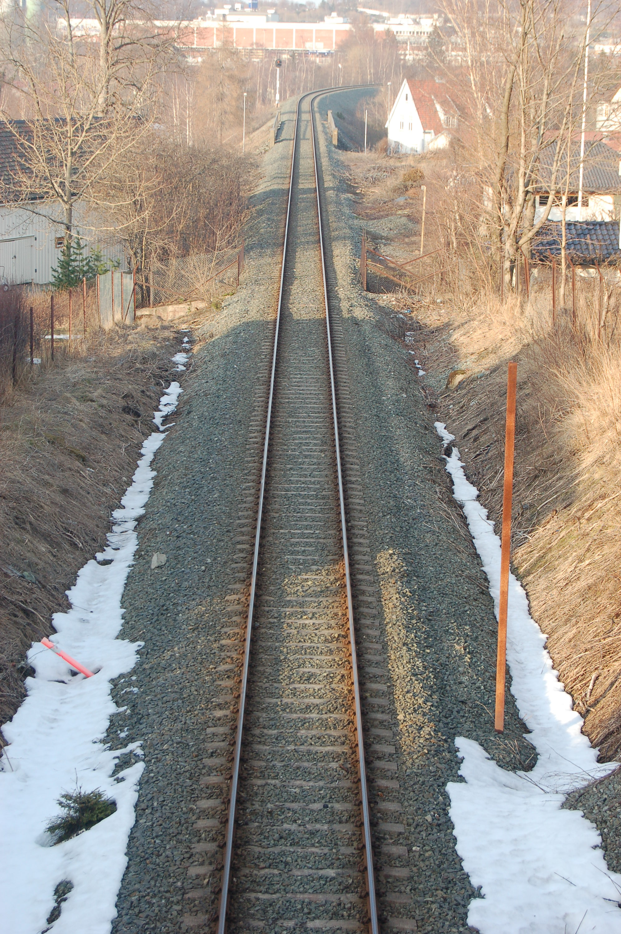 Section of Stavnebanen between Tyholt Tunnel and Leangen, Trondheim, Norway